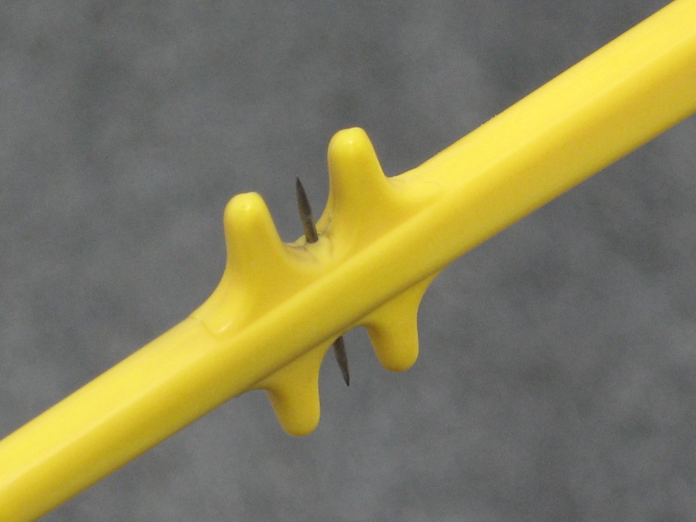 A static discharger on an aeroplane. The sharp 3/8" metal spike causes the discharge, and the yellow plastic surround protects the discharger and personnel who handle it from damage.